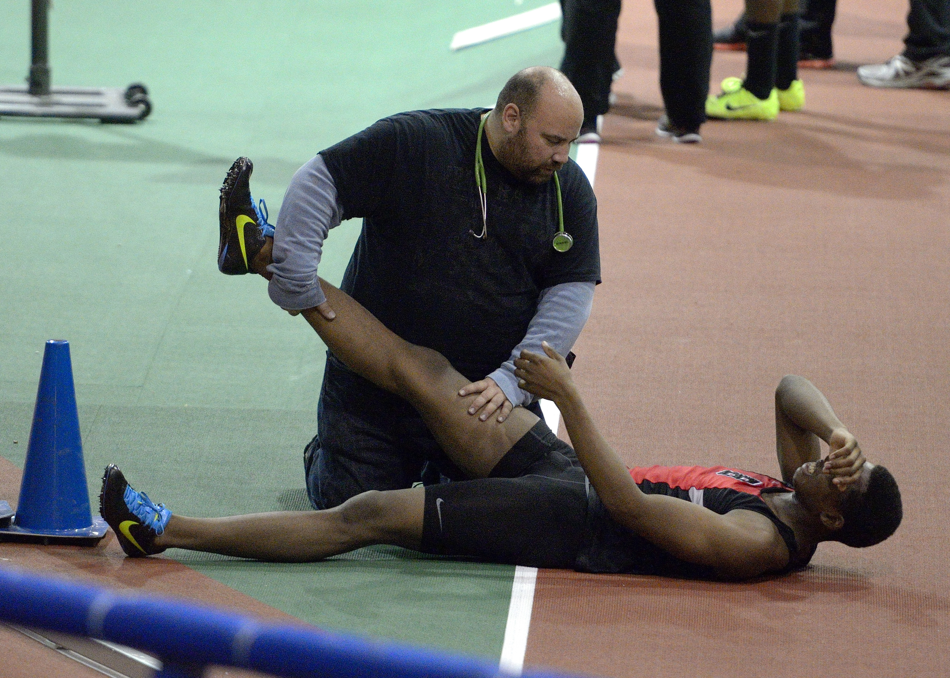 Medical personnel stretching out a sprinters hamstrings. This is the incorrect procedure following a hamstring muscle strain where pressure should be applied to prevent bleeding and to decrease the time of injury. Original description: Bishop Loughlin Games - Armory - Track & Field December 21, 2013 New Balance Track & Field Center at The Armory New York, NY Medical personnel attending to a runner who pulled up at the end of his race (maybe a hamstring).